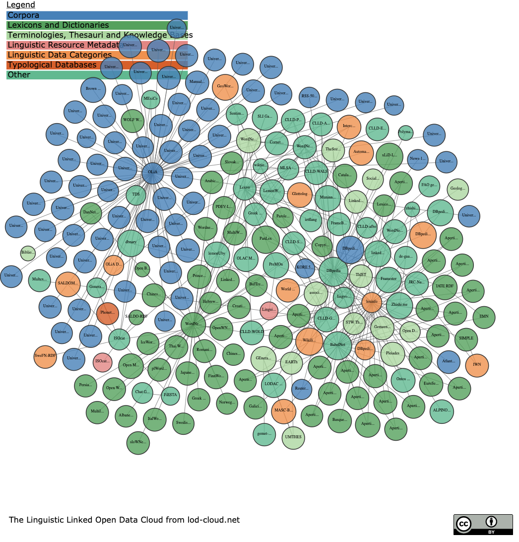 LLOD Cloud